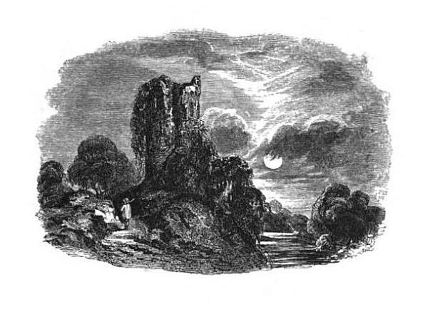 A woodcut to John Constable's design for stanza 3 of Gray's Elegy, published in 1834